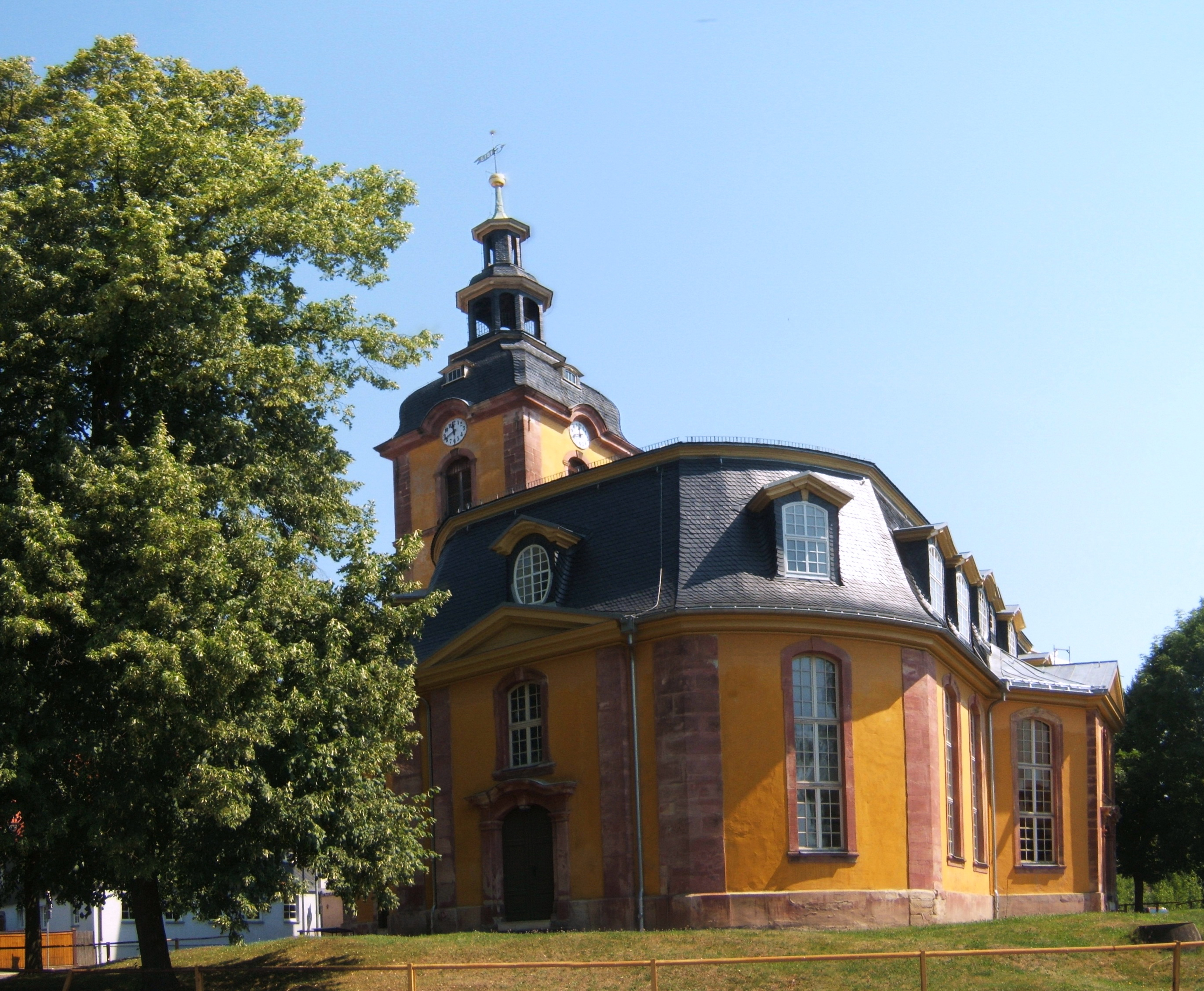 Church St. Blasii in Zella-Mehlis, South Thuringia, Germany